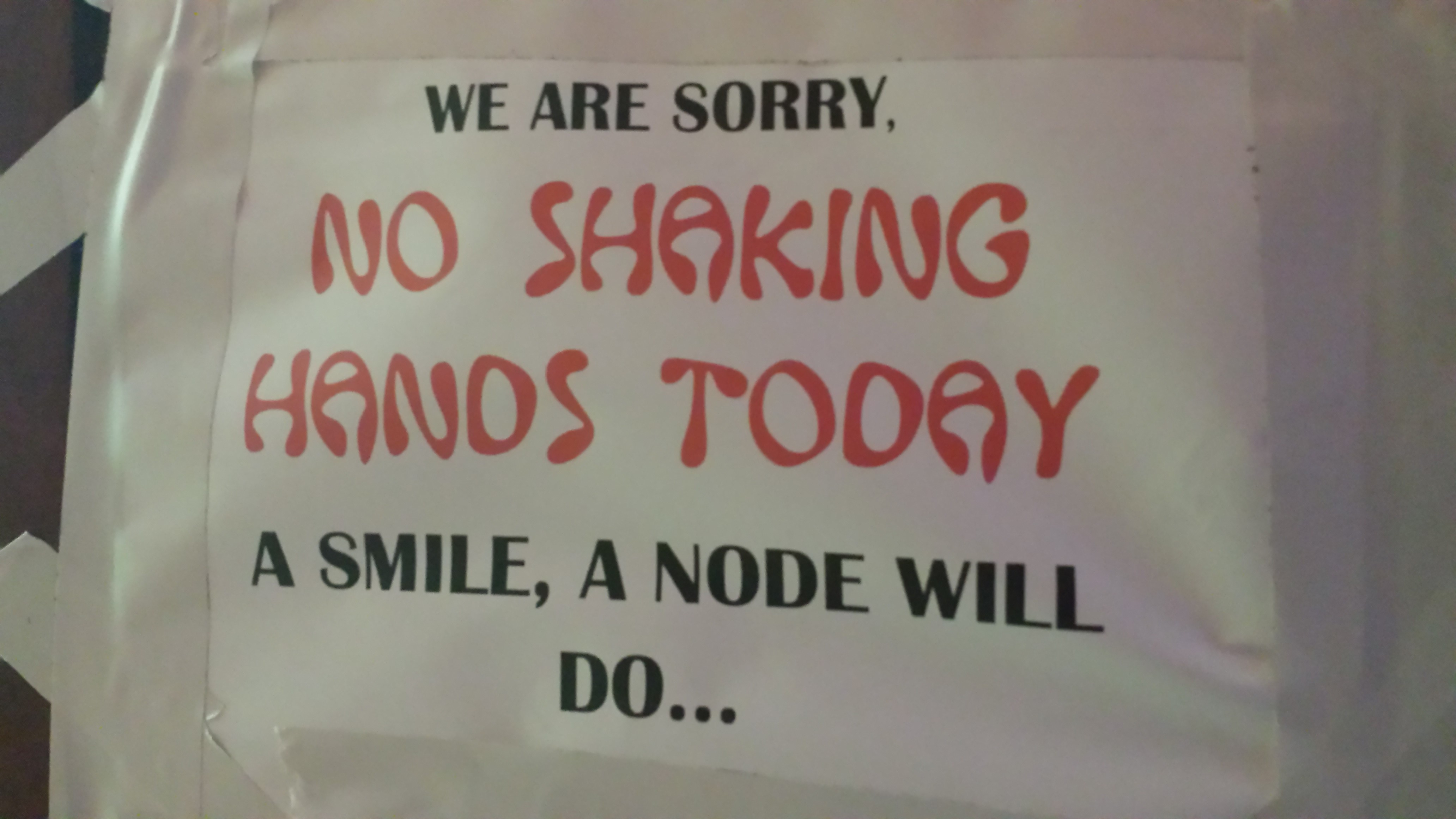 Sign posted at a Monrovia radio station. Hand shaking is an important cultural tradition in West Africa that has been halted due to concern for Ebola transmission. Photographer: Ben Monroe For more information on Ebola and what CDC is doing, please visit